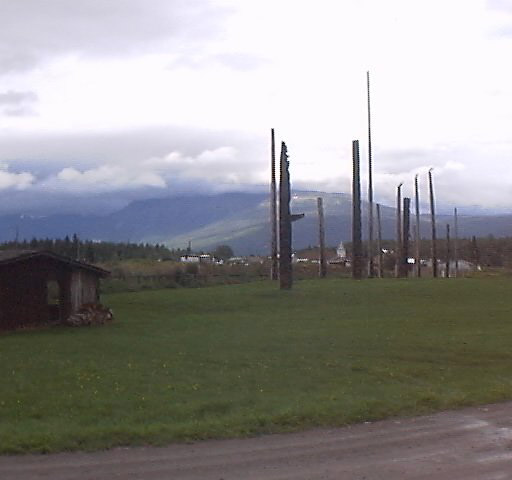 Photo by Keith Freeman Taken August, 2000